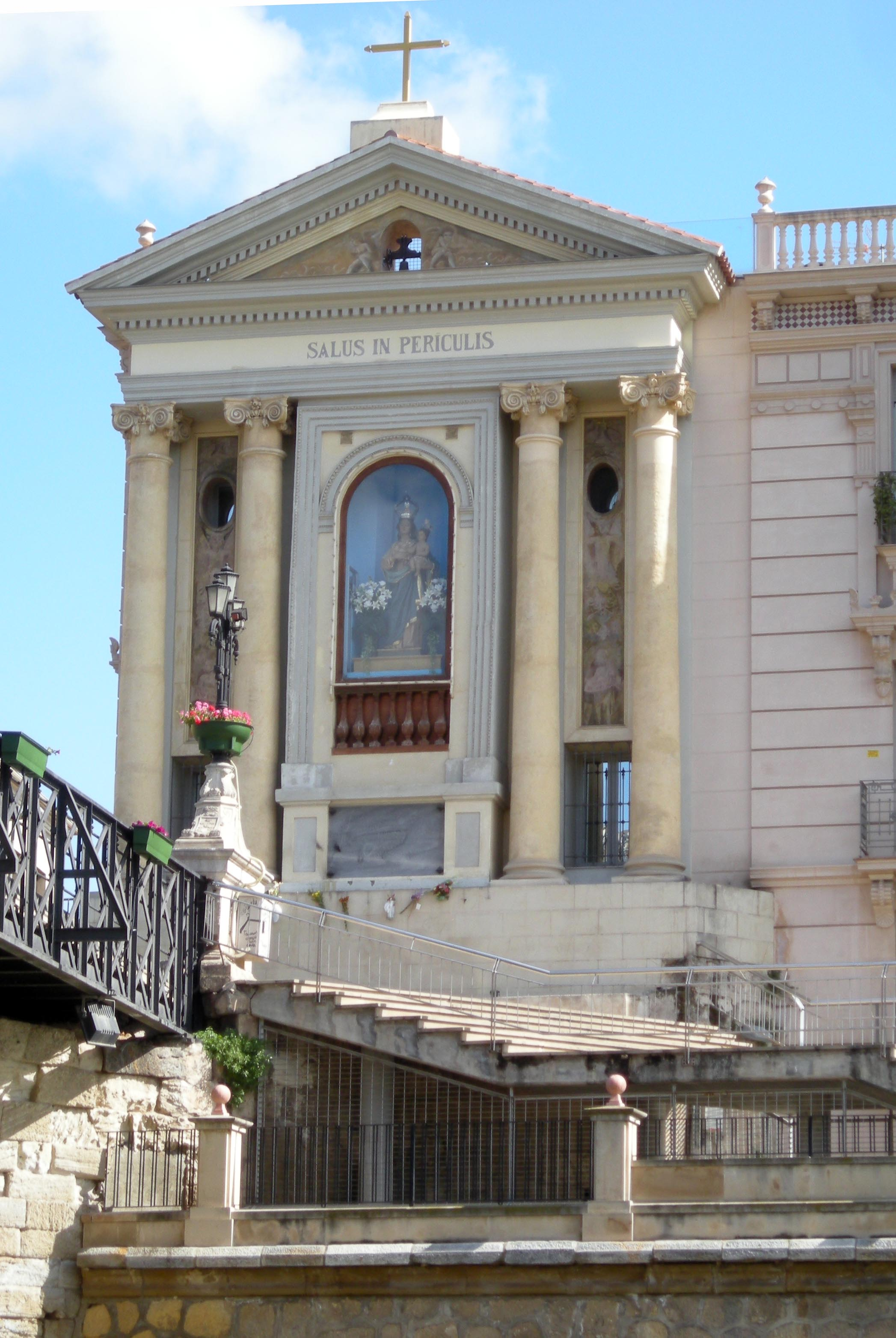 Periculus vierge near of Segura river.